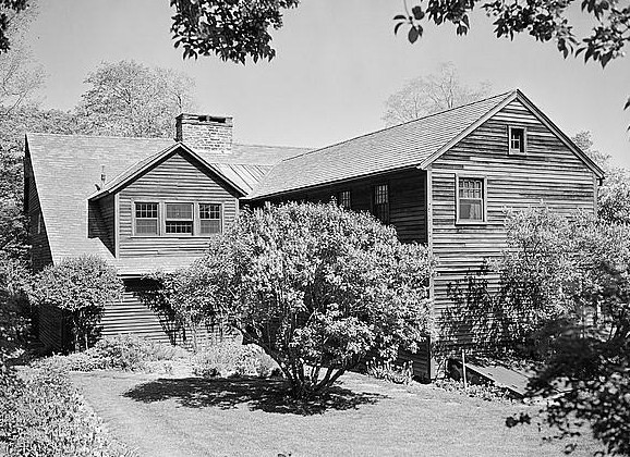 Stanley-Whitman House, 37 High Street, Farmington (Hartford County, Connecticut) (cropped)